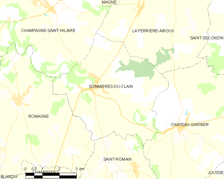 Map of French municipality Sommières-du-Clain